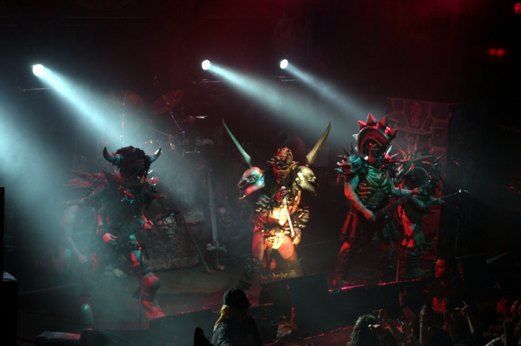 Gwar in Full Gear Live on Stage